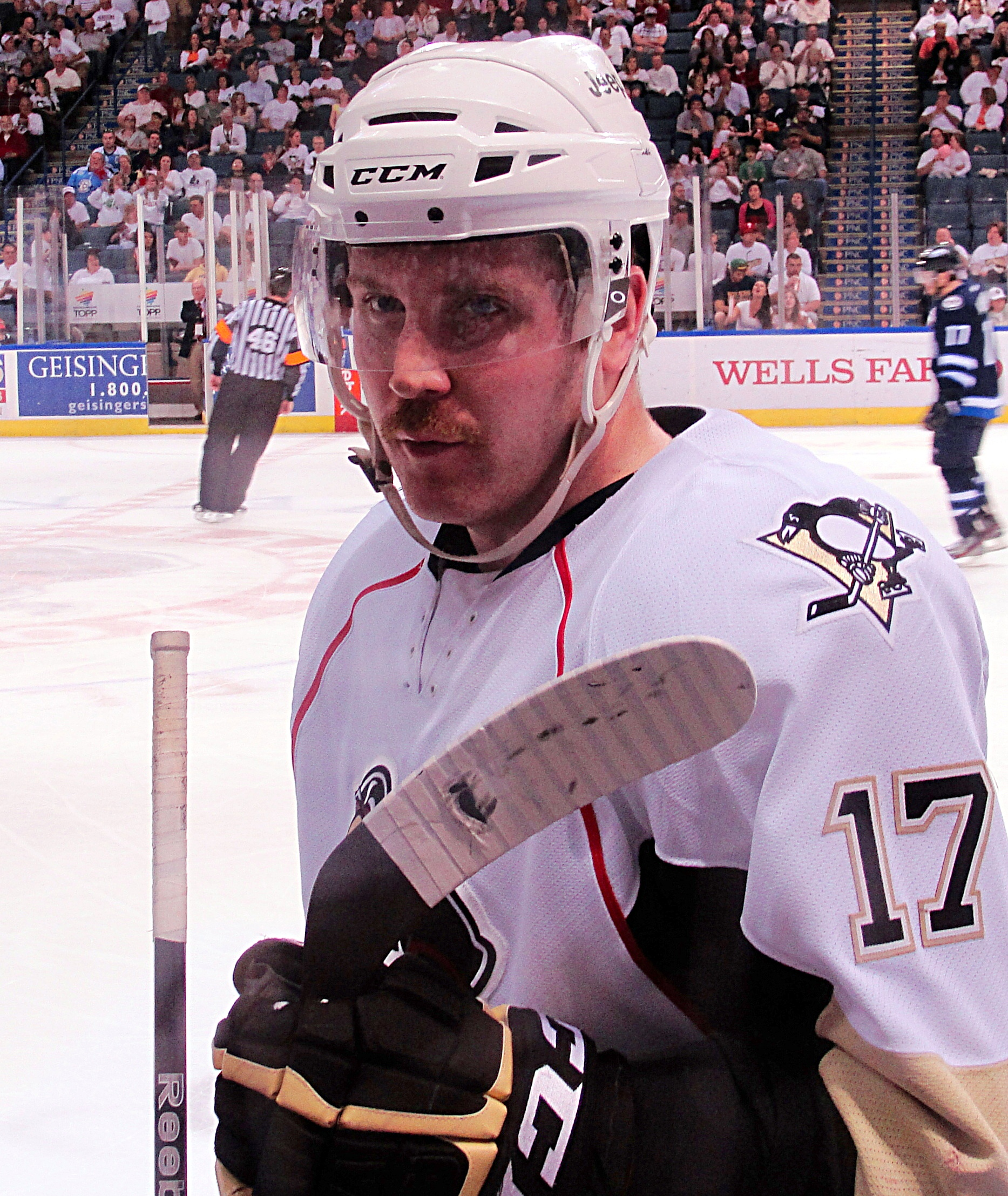 Wilkes-Barre/Scranton Penguins right winger Geoff Walker during a AHL Calder Cup Playoffs second round game against the St. John's IceCaps, May 5, 2012 at Mohegan Sun Arena at Casey Plaze in Wilkes-Barre, PA.